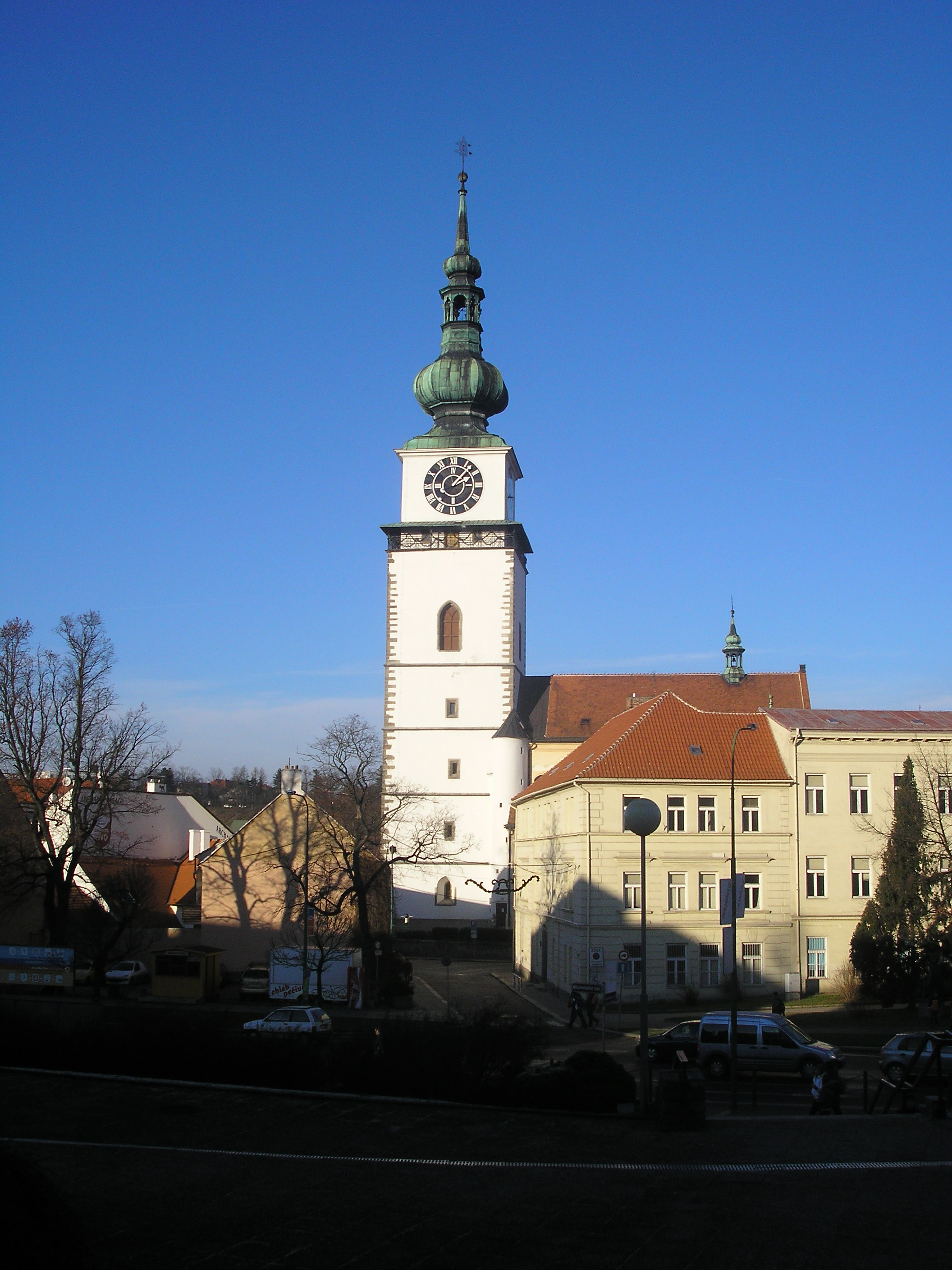 The town tower in Třebíč, wiev from theatre Pasáž, in year 2008.